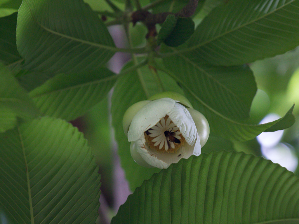 Flower of Dillenia indica, Lalbagh botanical gardens, Bangalore, India